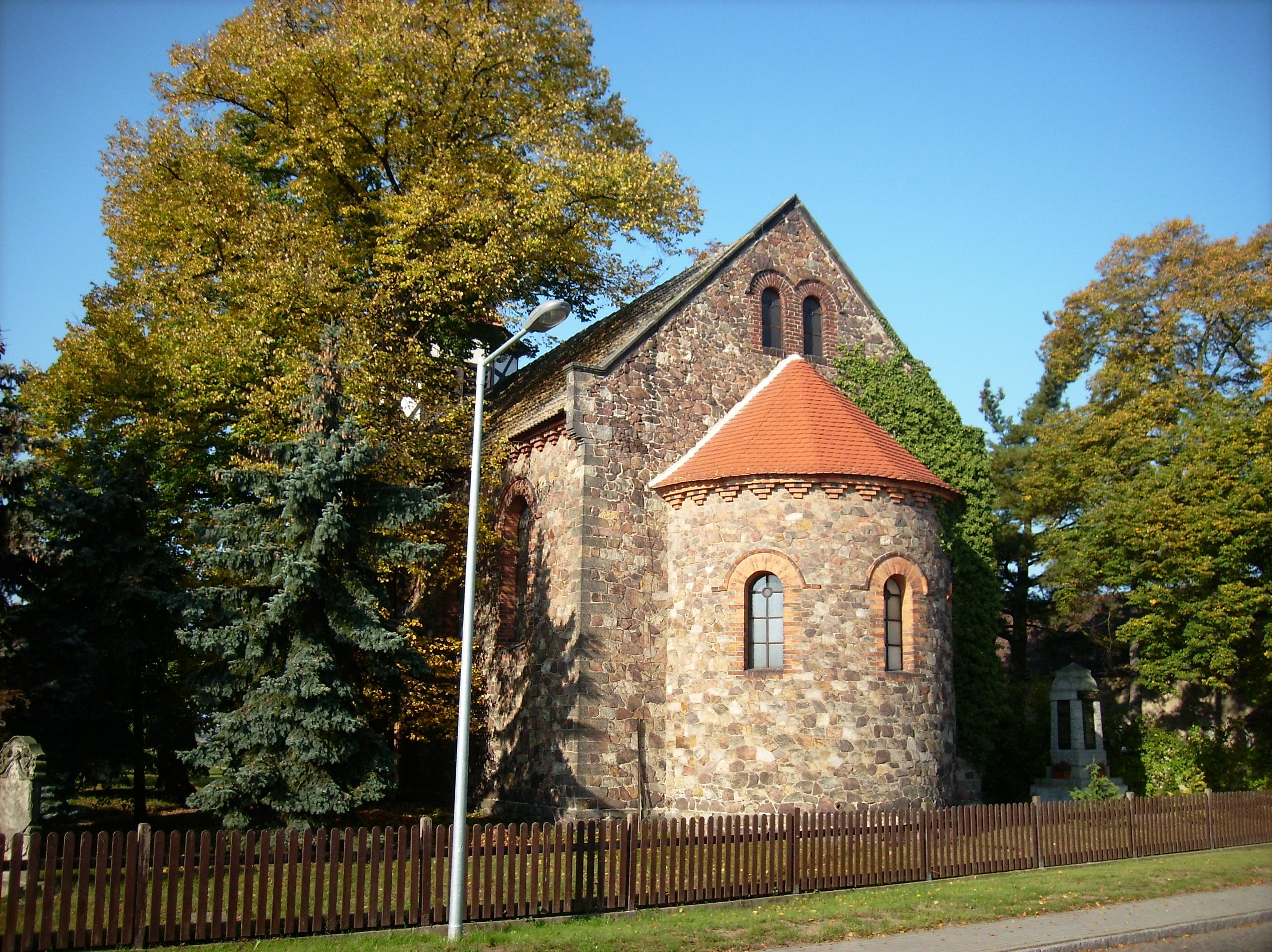 Church of the village of Kölsa (Falkenberg/Elster, Elbe-Elster district, Brandenburg)